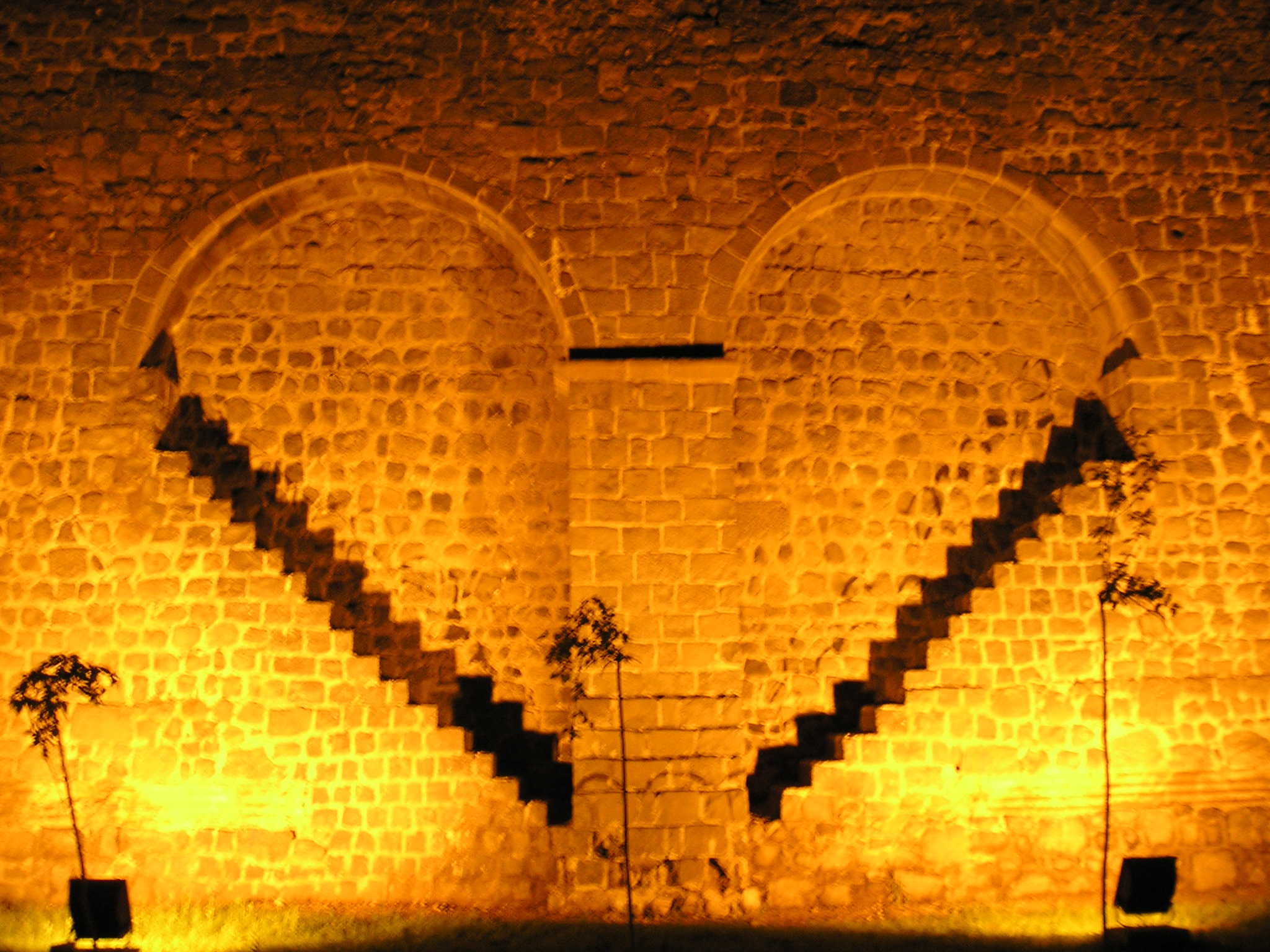 The city walls of Diyarbakir. 2004. Photo by Bertil Videt